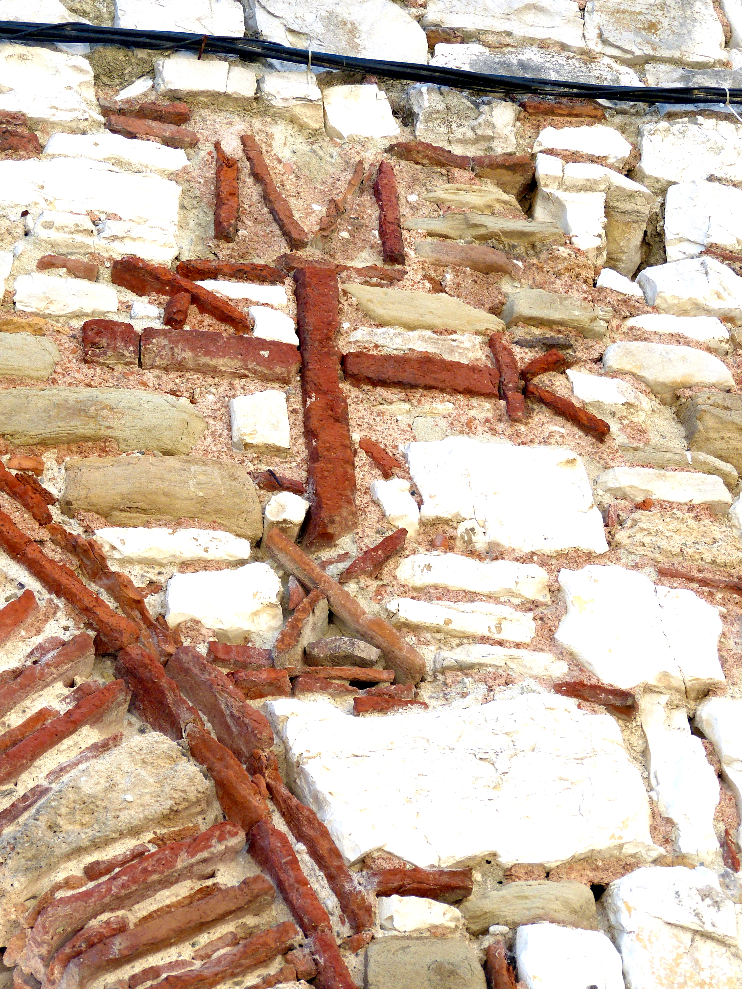 Berat (Albania). Fortress - Outer Ward ( 1210s ): Monogram of Michael Komnenos Doukas, ruler of the Despotate of Epirus.